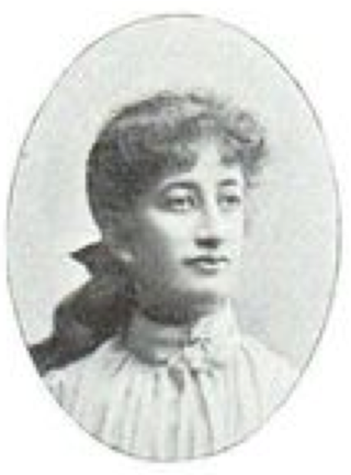 Astri Andersen, Swedish pianist